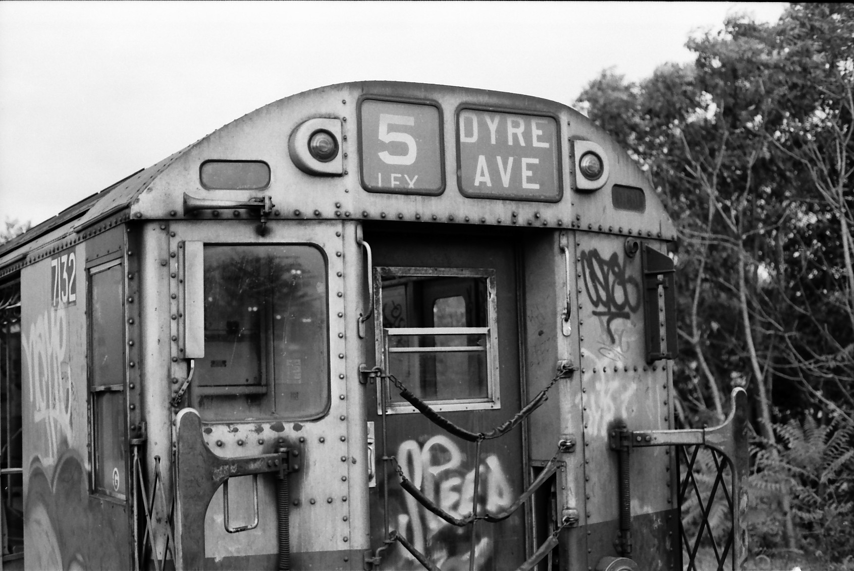 Stuart Gitlow, photographer